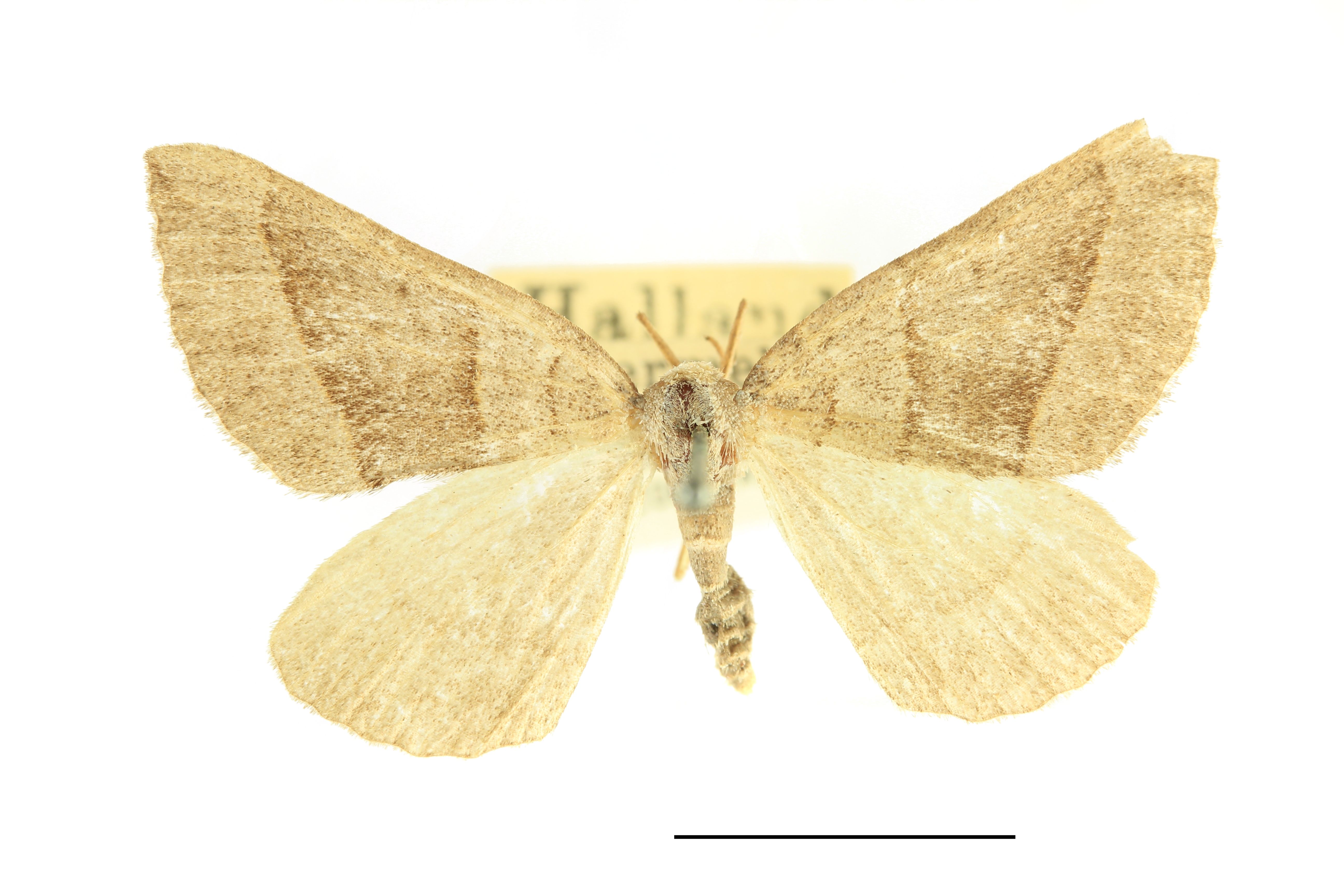 Scotopteryx luridata, insect collections SLU, Uppsala